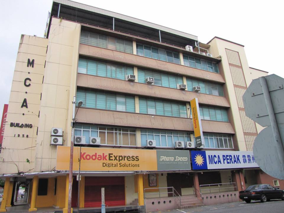 Front view of MCA Building, Ipoh